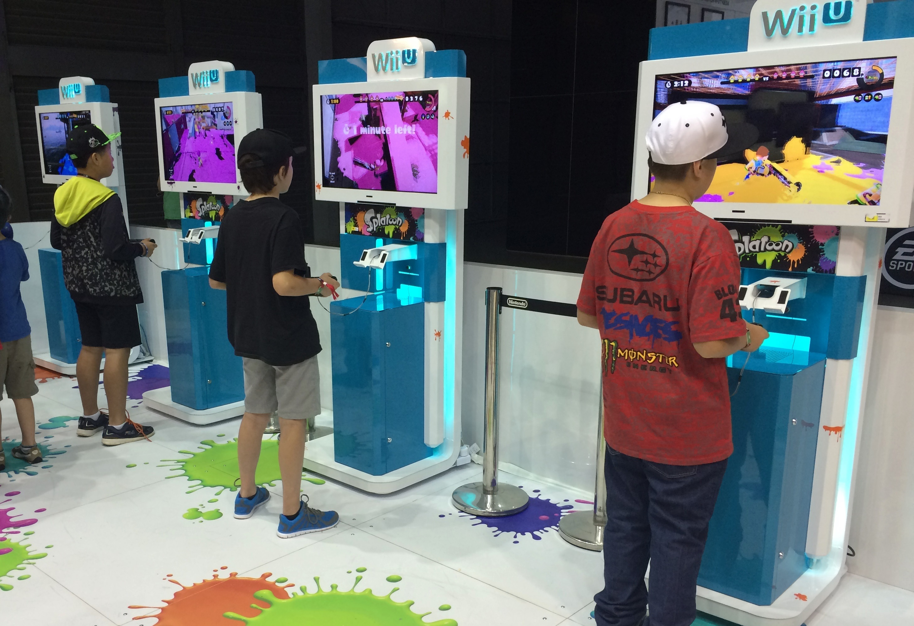 In the Nintendo booth, attendees of the EB Games Expo 2015 play online matches of Splatoon.